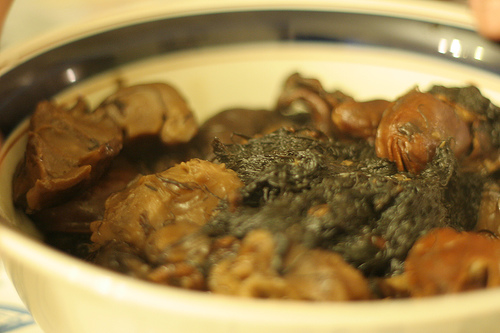 Chinese new year dish with Fat choy and 蠔豉 (sun-dried oyster)Chinese new year dish with Fat choy